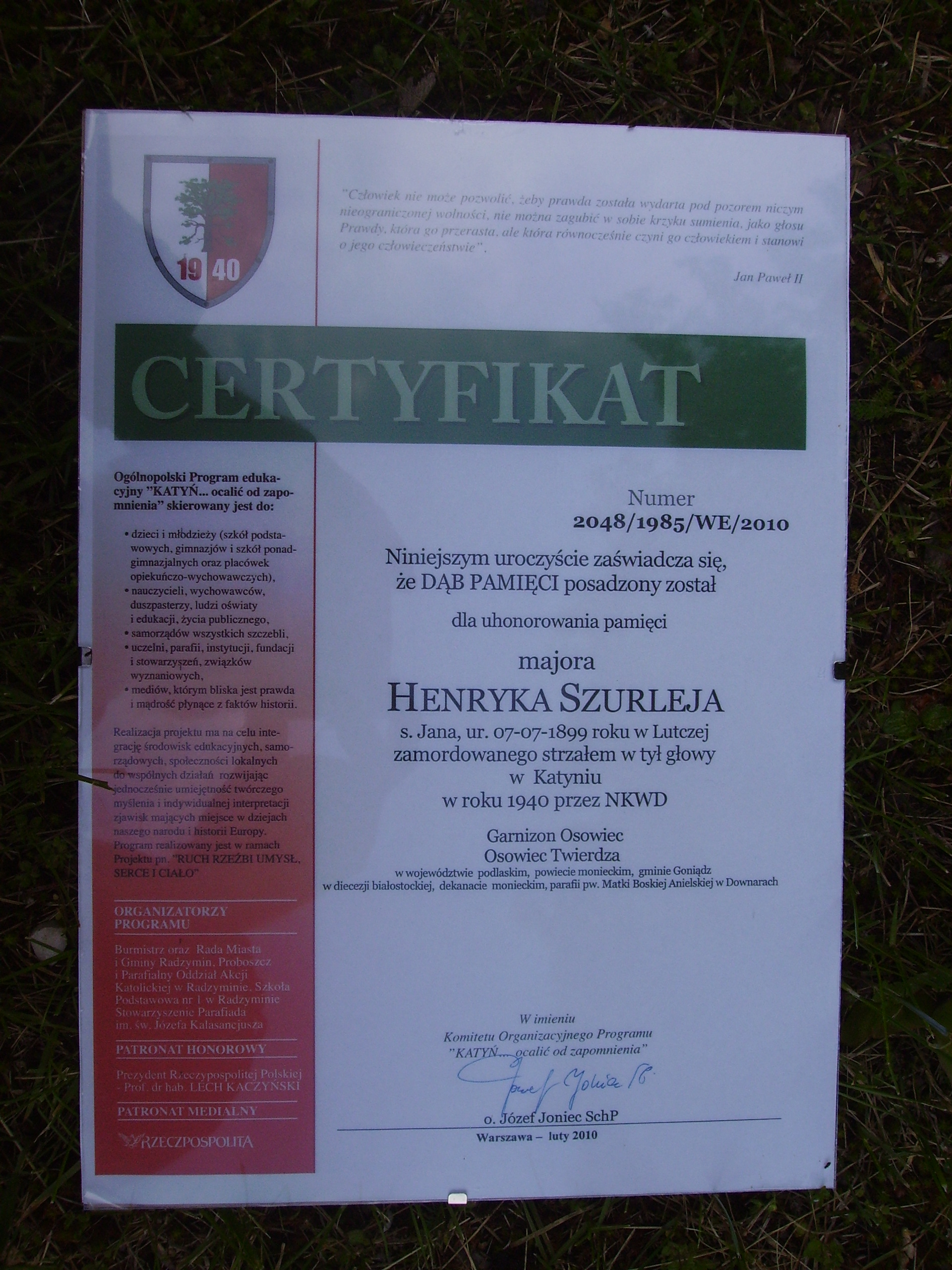 Osowiec Fortress. Oak Memorial. Certificate commemorating the death of a Polish officer (mjr Henryk Szurlej)